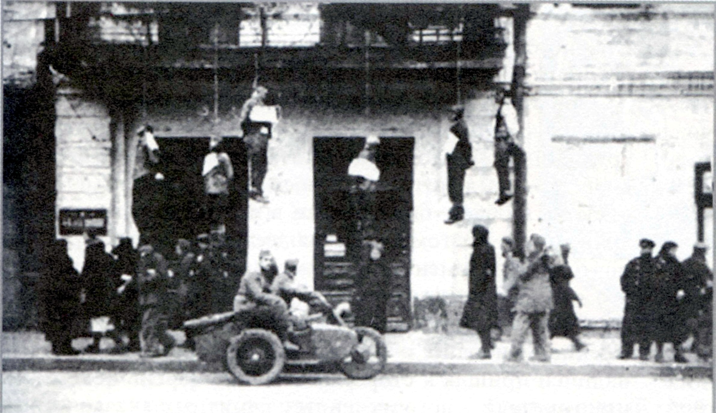 Sumskaya street in Kharkov City in Hitler occupation 1941.